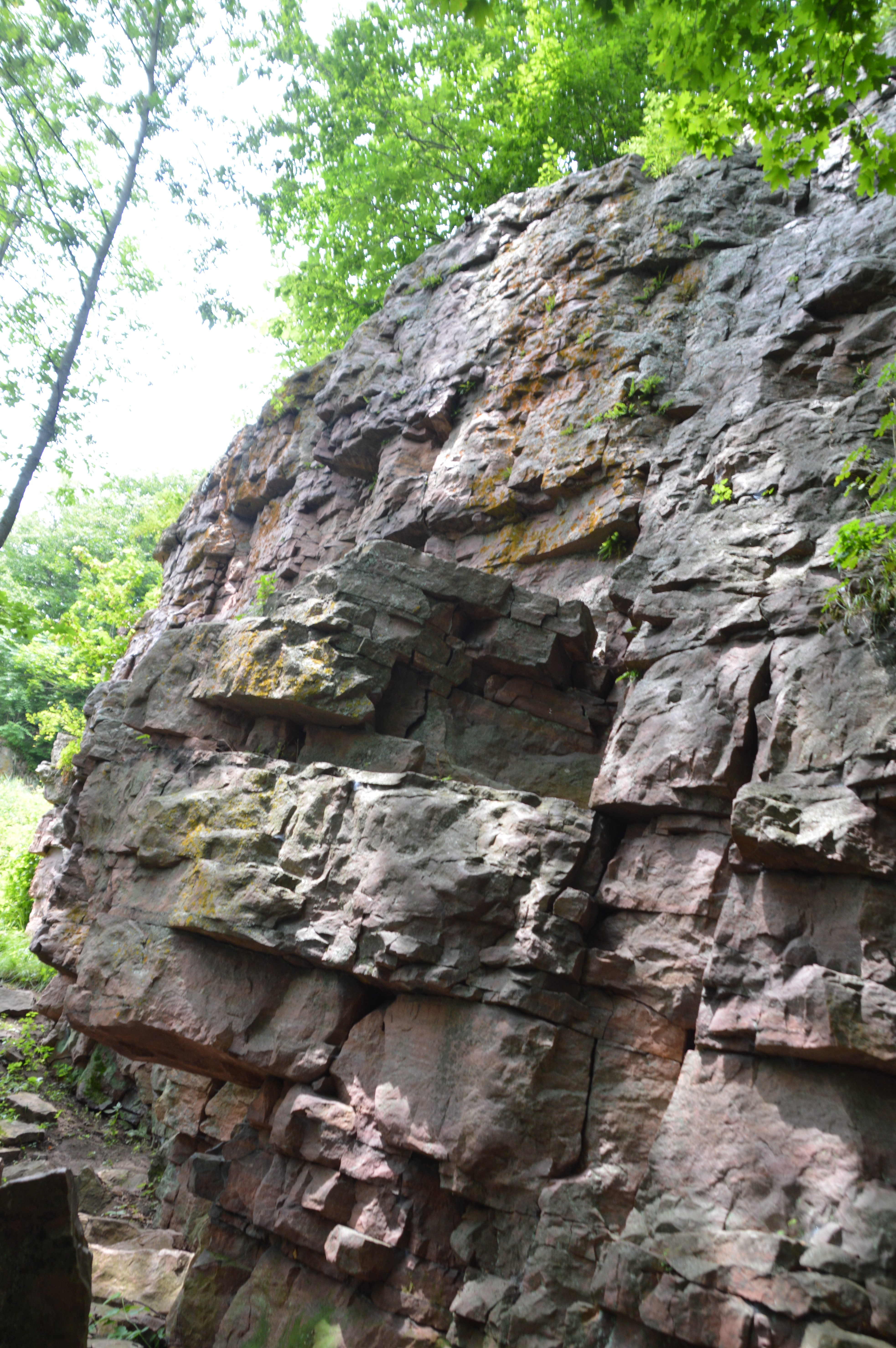 Natural rock climbing wall at Christie Mountain in Bruce, WI July, 2017